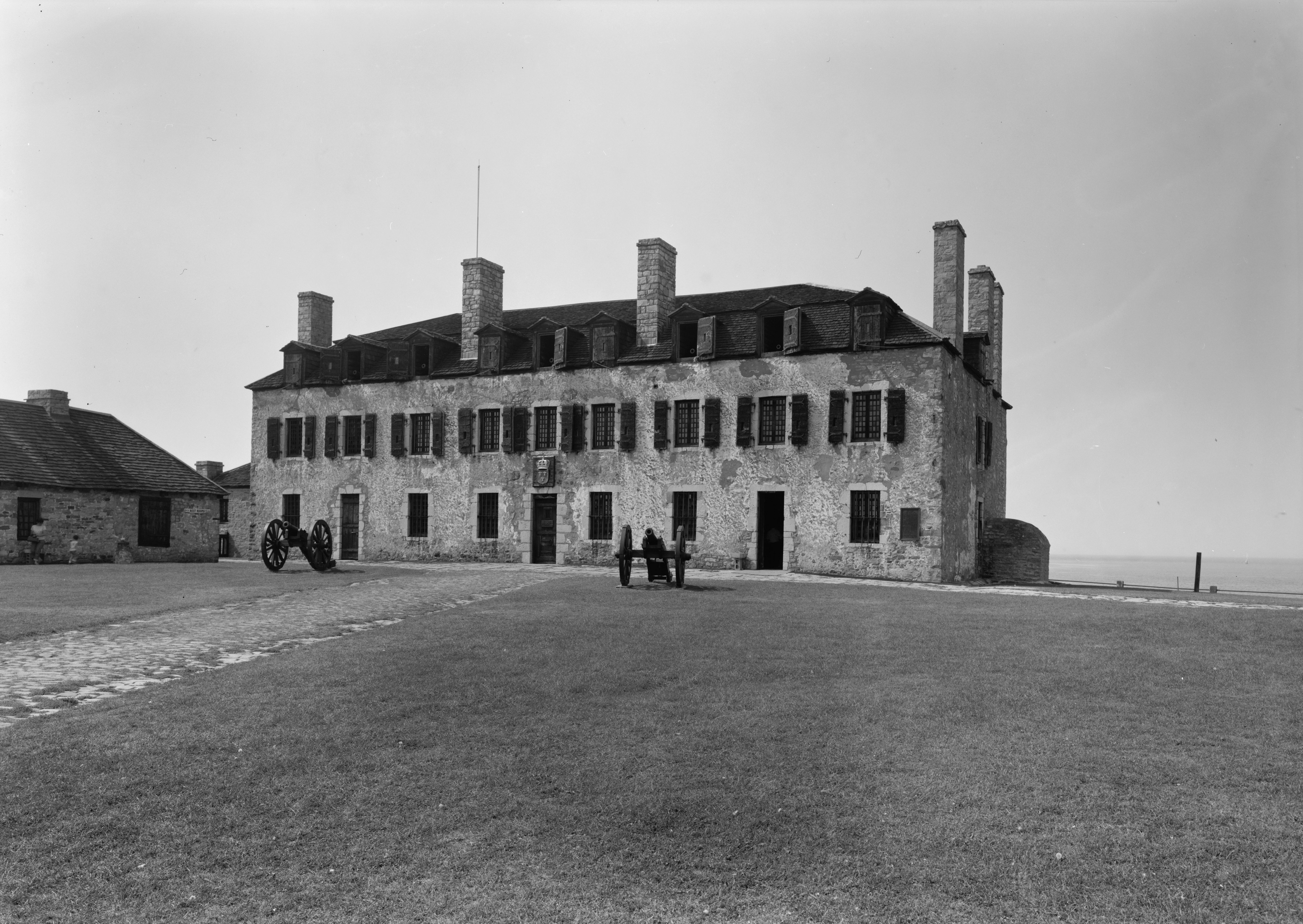 Fort Niagara building, photo taken in 1967. Caption:Parade Ground